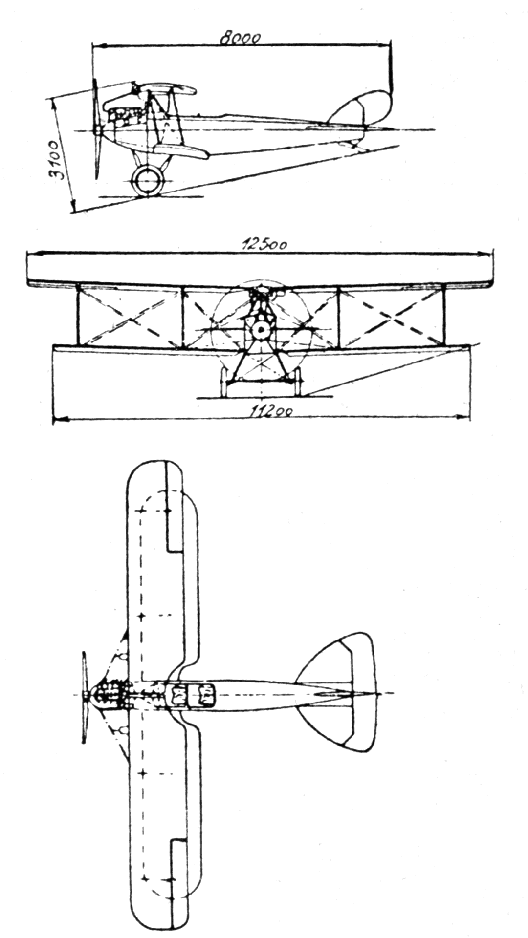 Raab-Katzenstein RK 6 Kranich 3-view drawing from L'Air January 1,1927